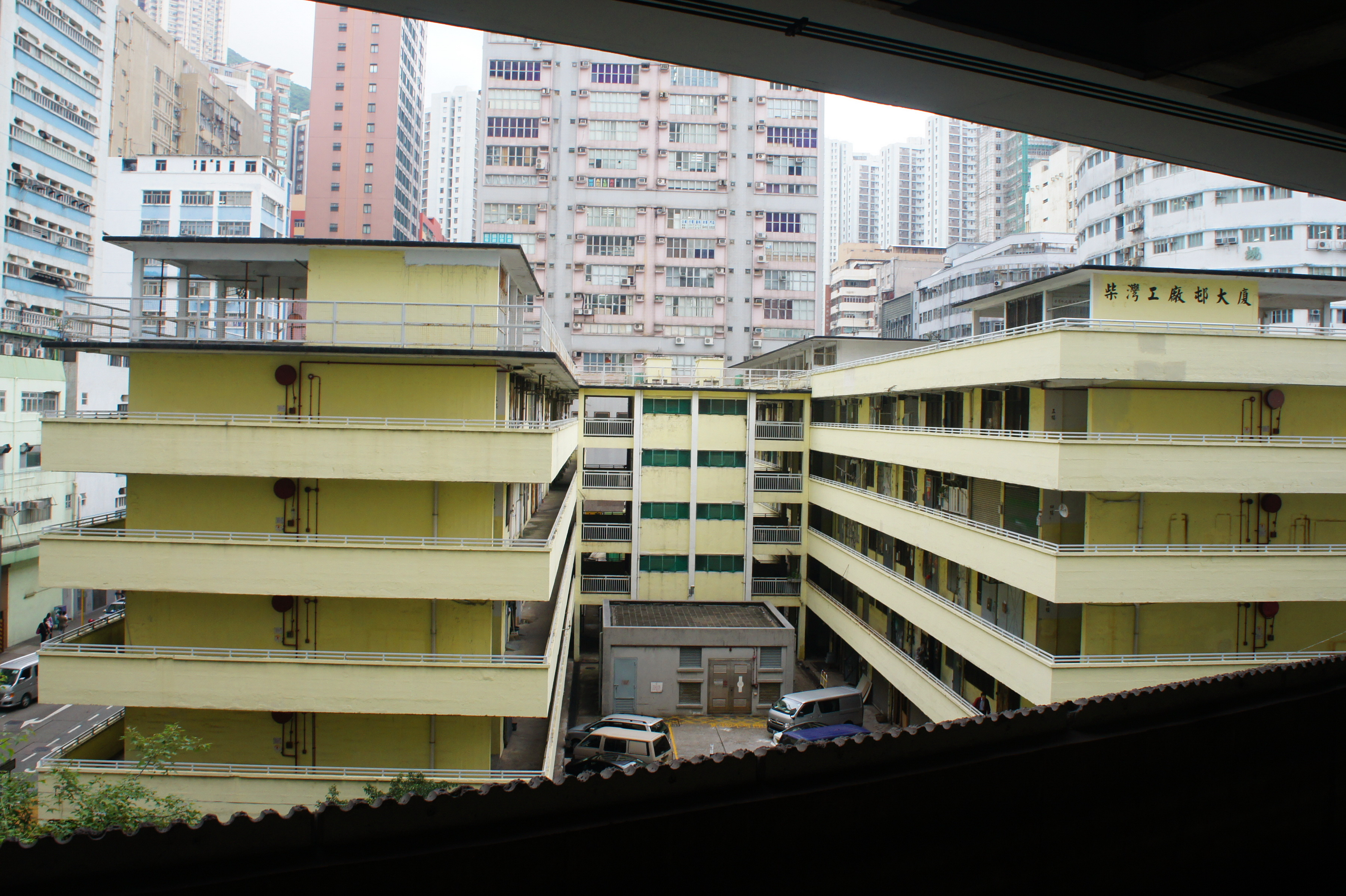 Chai Wan Factory Estate, Hong Kong.